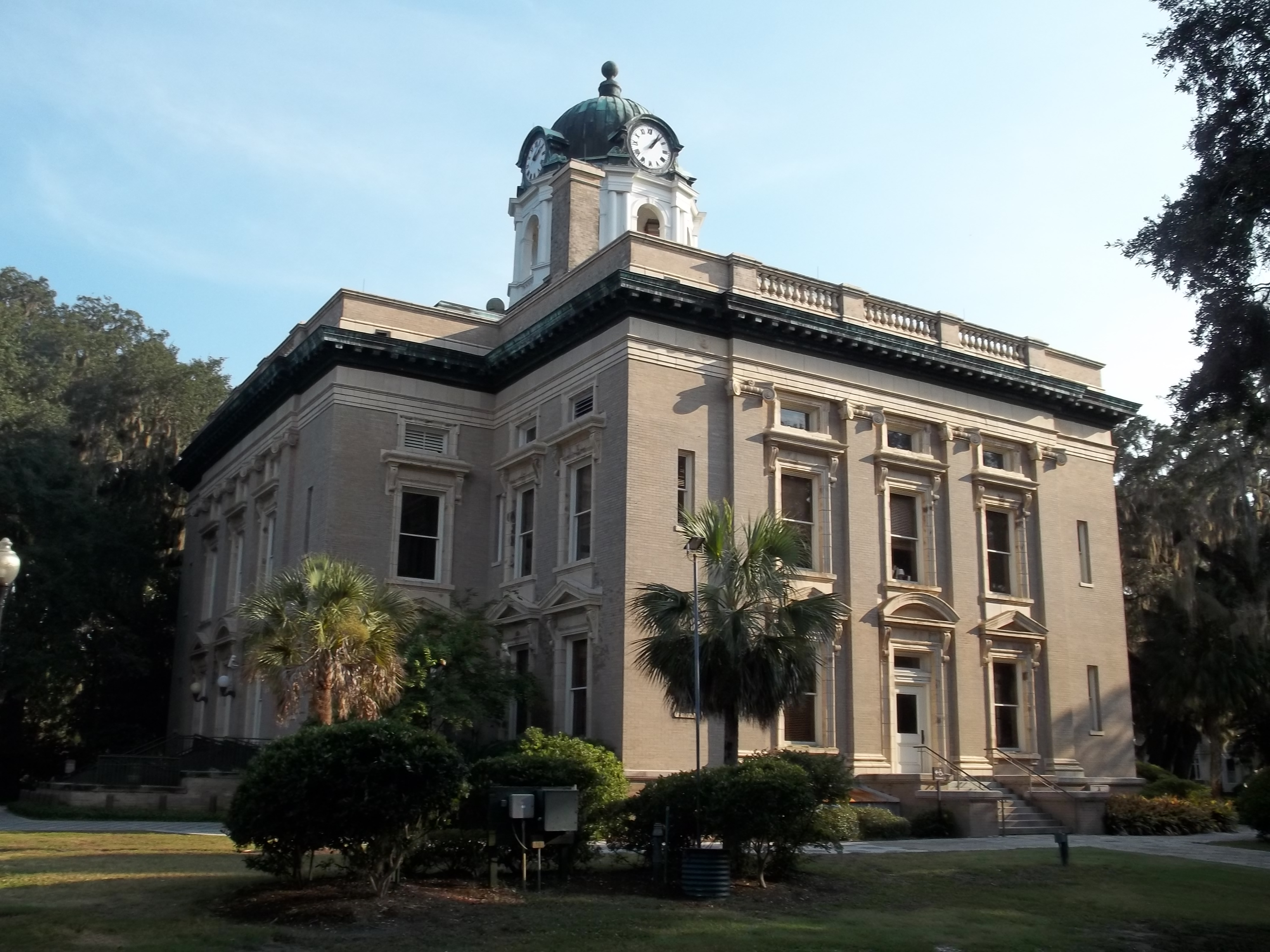 Brunswick, Georgia: Brunswick Old Town Historic District: Old courthouse, built in 1907.